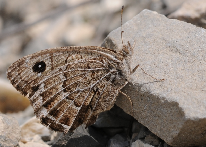 Wing underside view of Amasian Satyr butterfly. Tortum, Erzurum - Turkey. 1800 m.